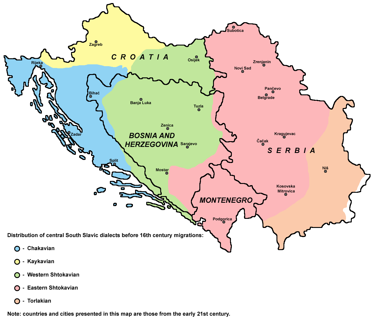 Distribution of central South Slavic dialects before 16th century migrations.Srpskohrvatski / српскохрватски: Raspored srednjojužnoslovenskih dijalekata pre migracija iz 16. veka.